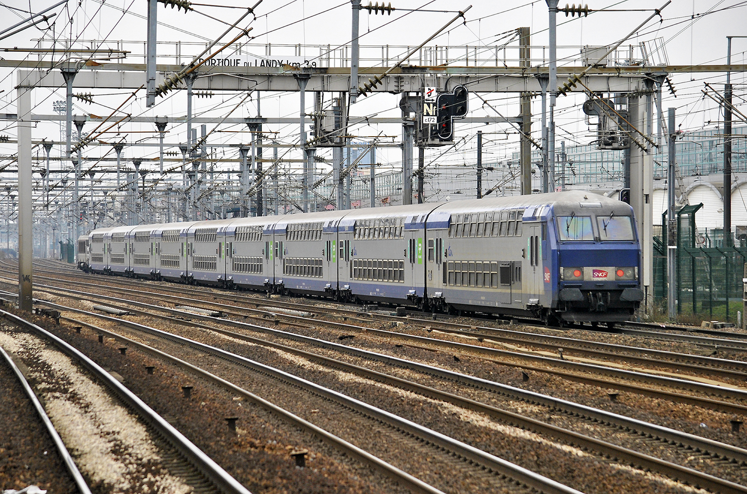 Stade-de-France Saint-Denis Railway Station.